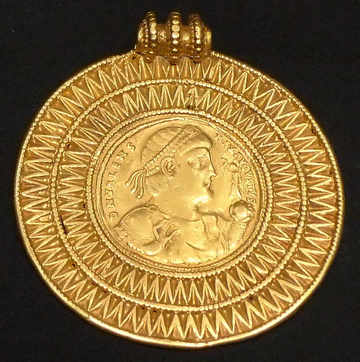 Roman gold medal of Emperor Valens, made 375-78 AD. Part of the treasure of Szilágysomlyó (Şimleu Silvaniei), c. 525-550 AD.